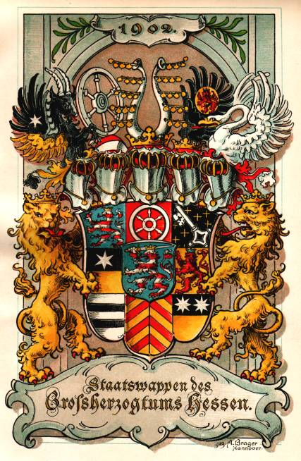 Coat of arms of the grandduchy of Hesse 1902–1918